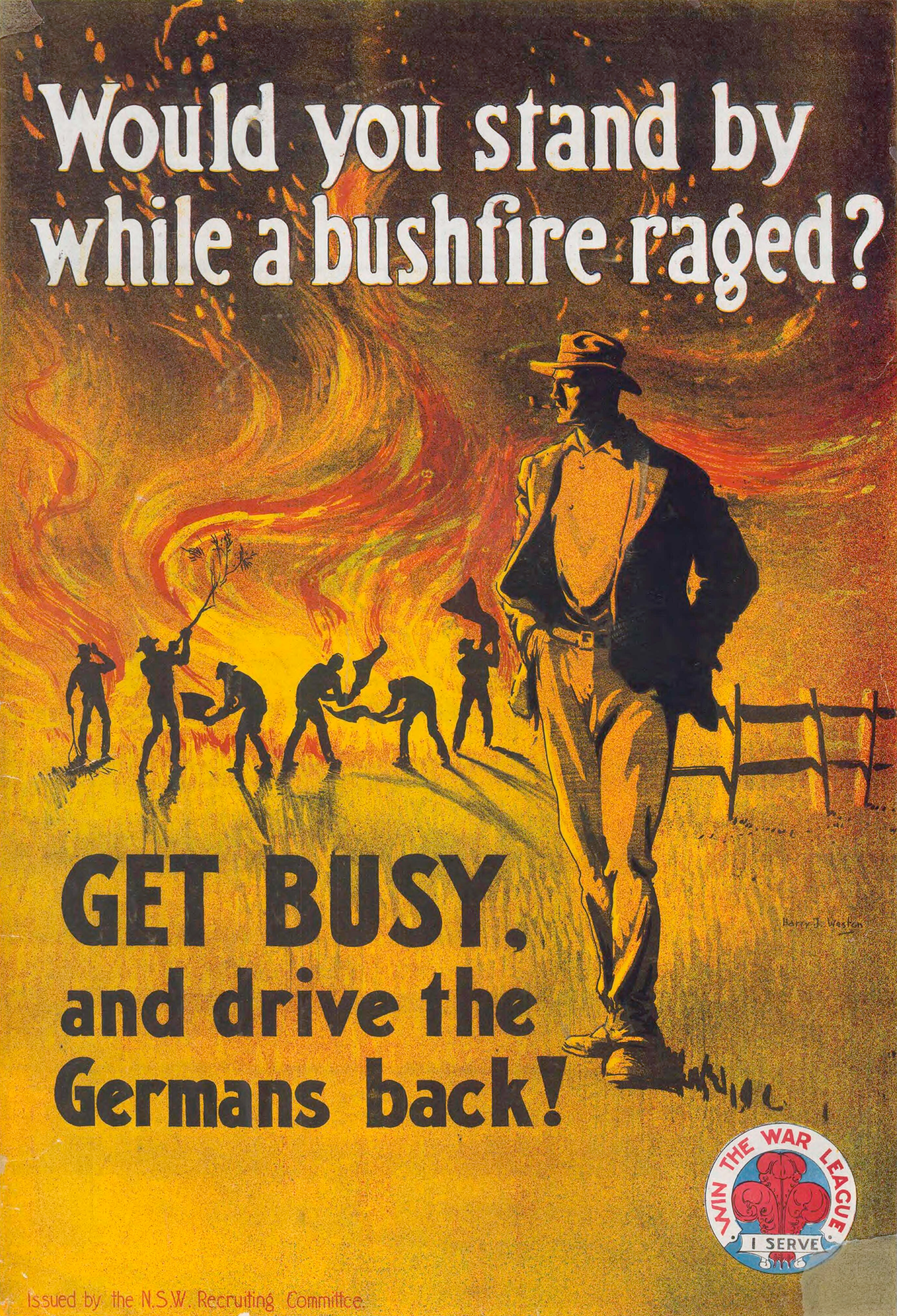 Sourced from the Australian War Memorial Collection Database Created in 1916